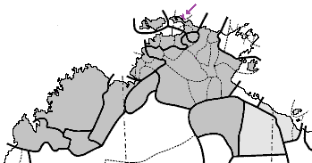 Marrgu language (purple arrow), among other non-Pama–Nyungan languages (grey)